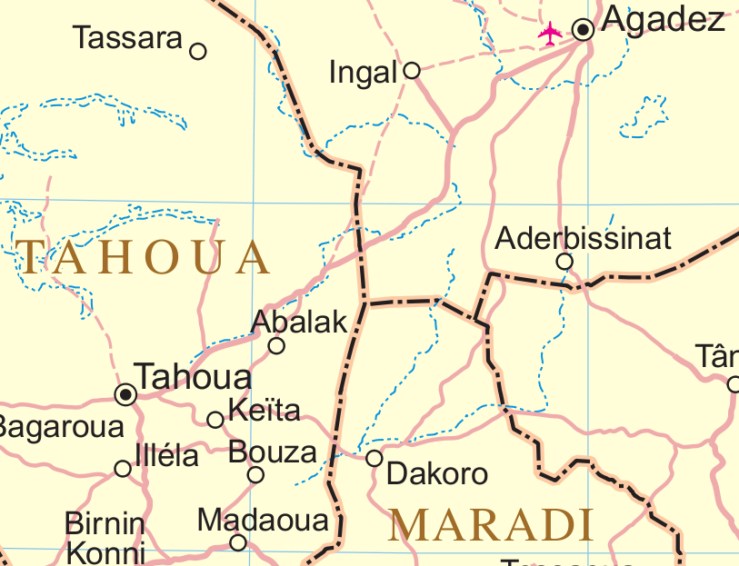 Area map of the region around Abalak, Niger